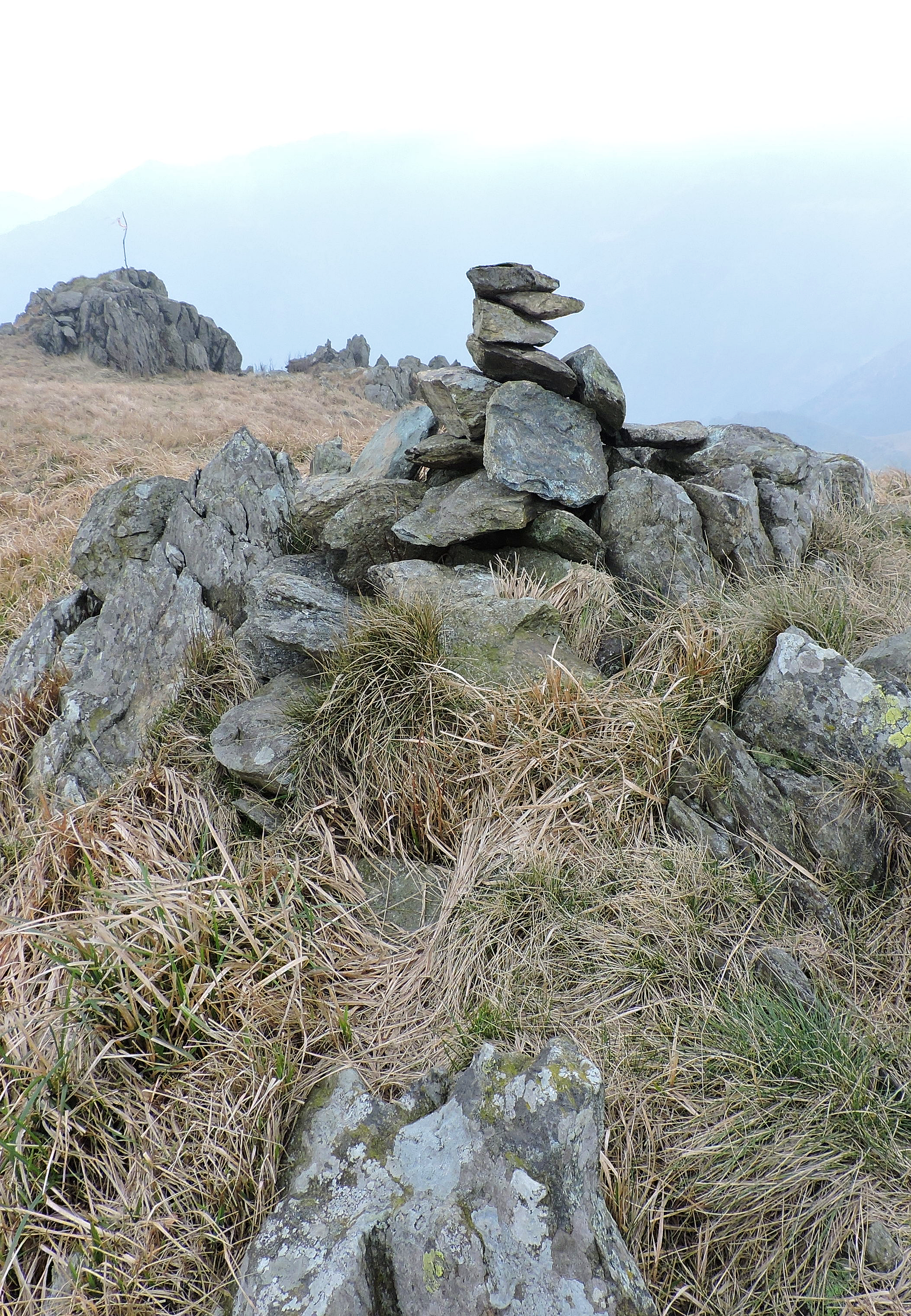 Monte Giallo (Ligurian Apennines): summit cairn